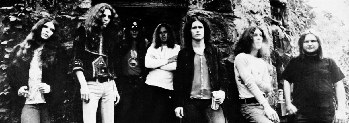 Trade ad for Lynyrd Skynyrd's single "Gimme Three Steps". To better adapt it to his respective Wikipedia article, the ad was cropped and cleaned in a graphics editing program. The original can be viewed at the source below.